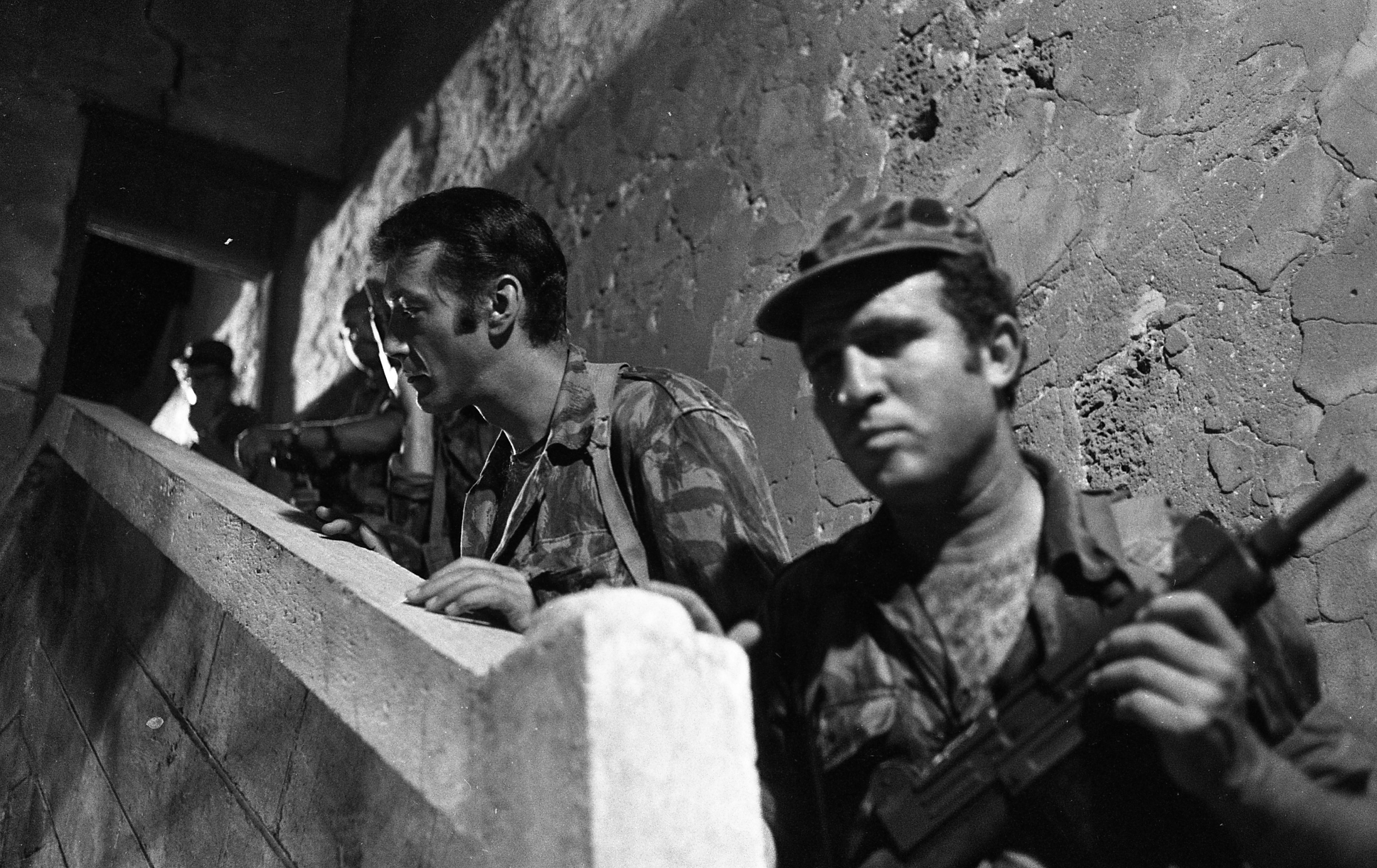 Making the film "Attack at Dawn".